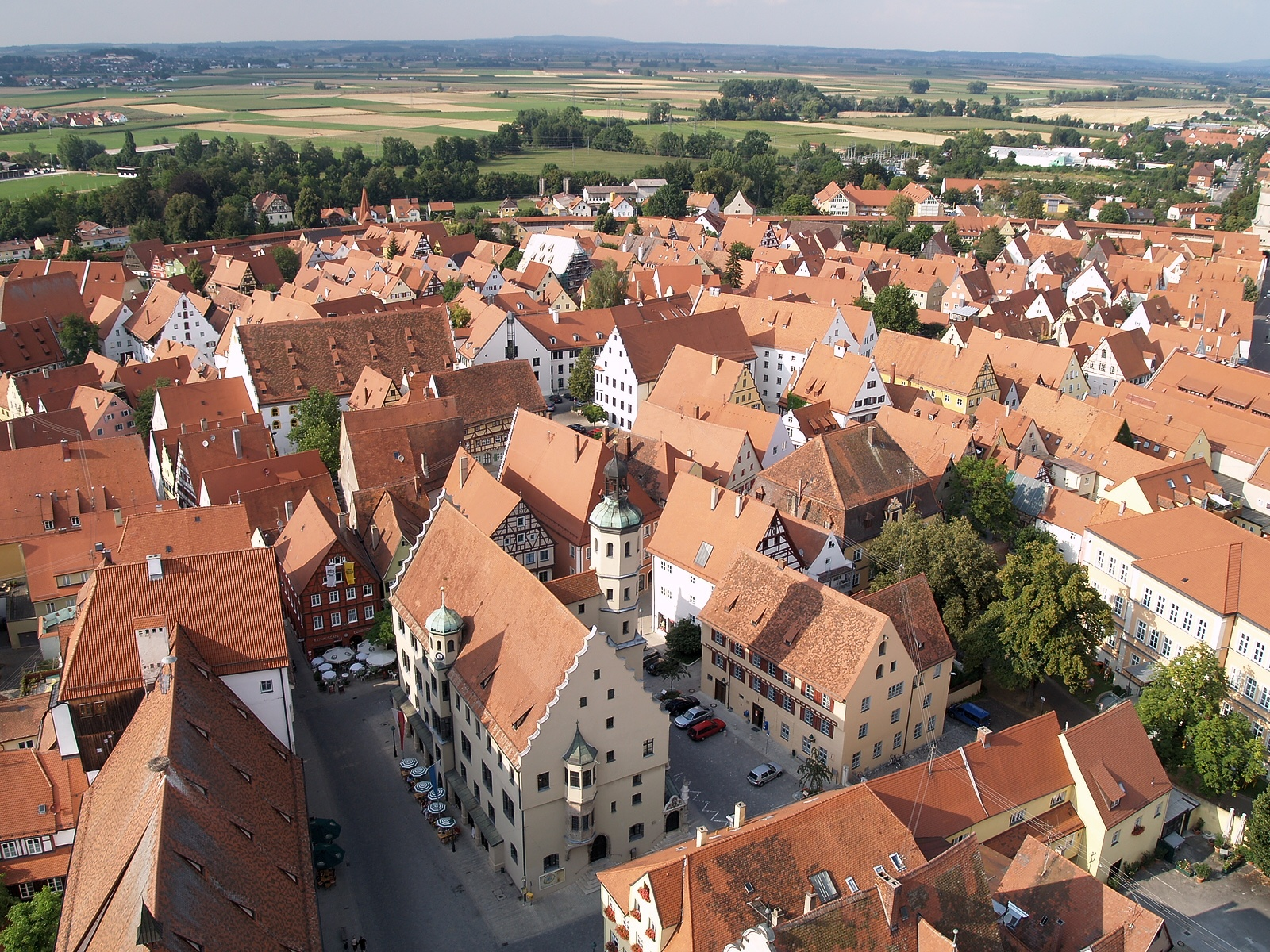 View to the north from church tower "Daniel", Nördlingen, Germany